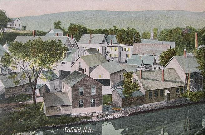 View of Enfield, New Hampshire